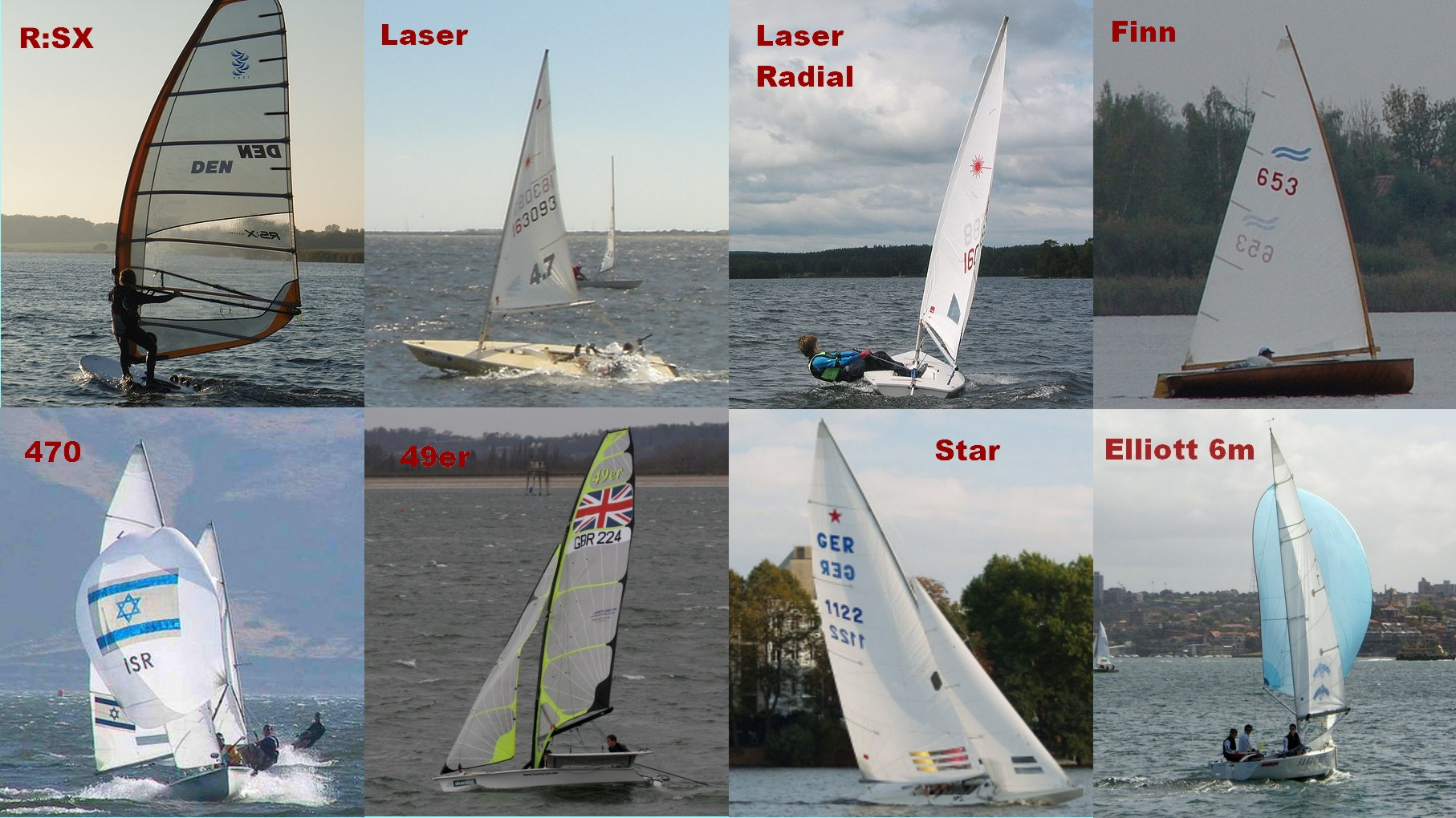 Olympic sailing classes - there is a mistake, the Laser at this picture is a Laser 4.7 and no Laser Standard (for example see File:Laser Standard 160588 01.jpg, thats a Laser Standard), also I´m not sure that the shown Laser radial is real a radial. If I remember rightly the sail of a Laser radial is blue at the head, tack and clew - for example see [1]